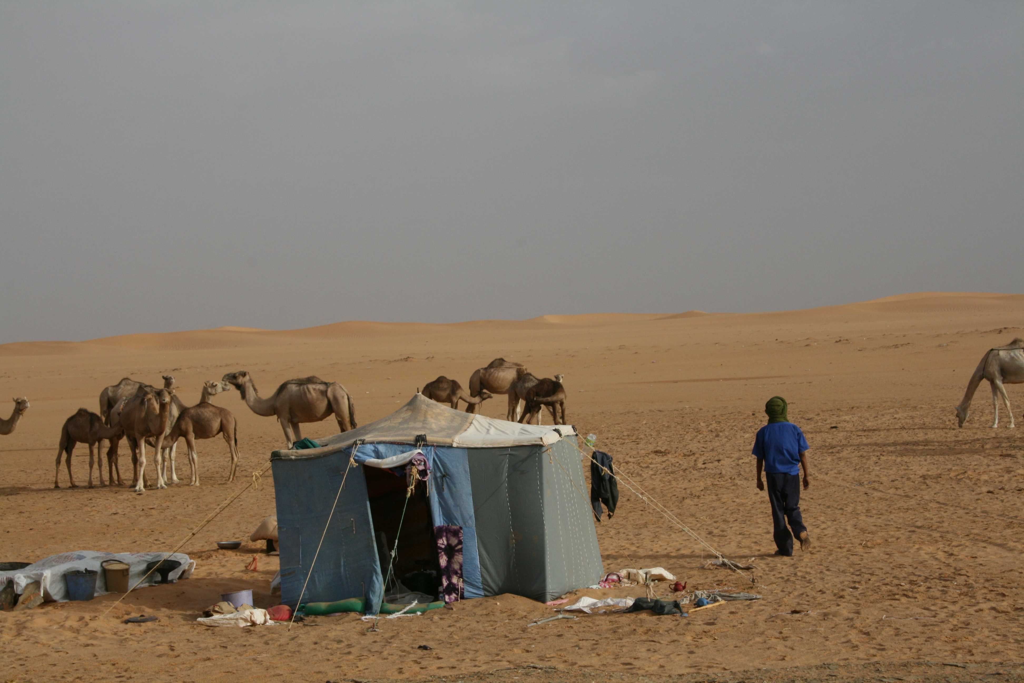 Traditional camel herding outside Dakhla refugee camp in Tindouf, Algeria.